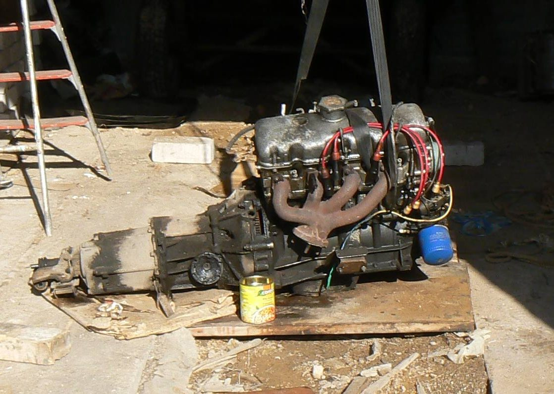 Aleko, M-21412 UZAM-331 engine with transmission